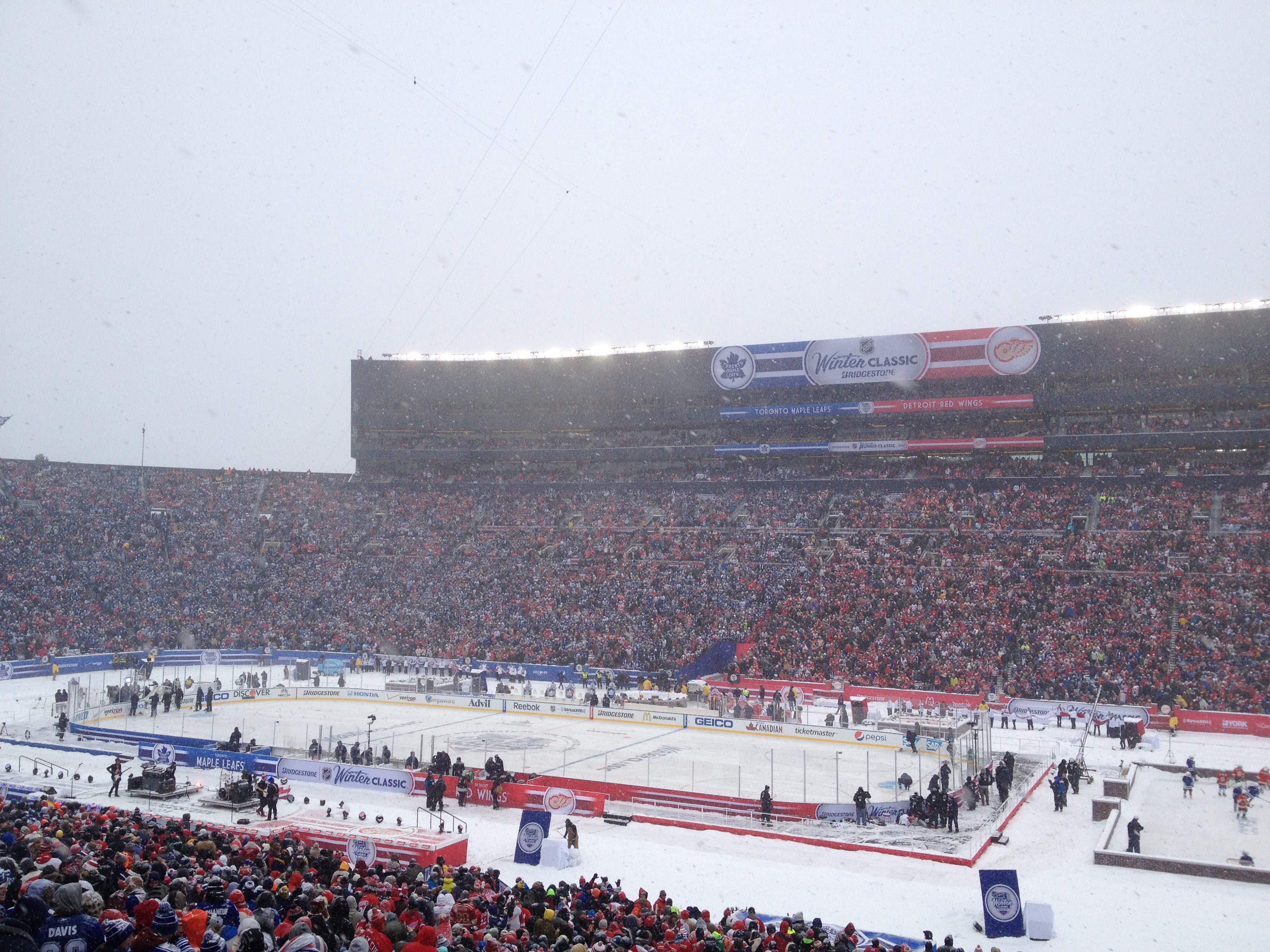 Picture taken before puck drop at the 2014 NHL Winter Classic in Ann Arbor, Michigan.